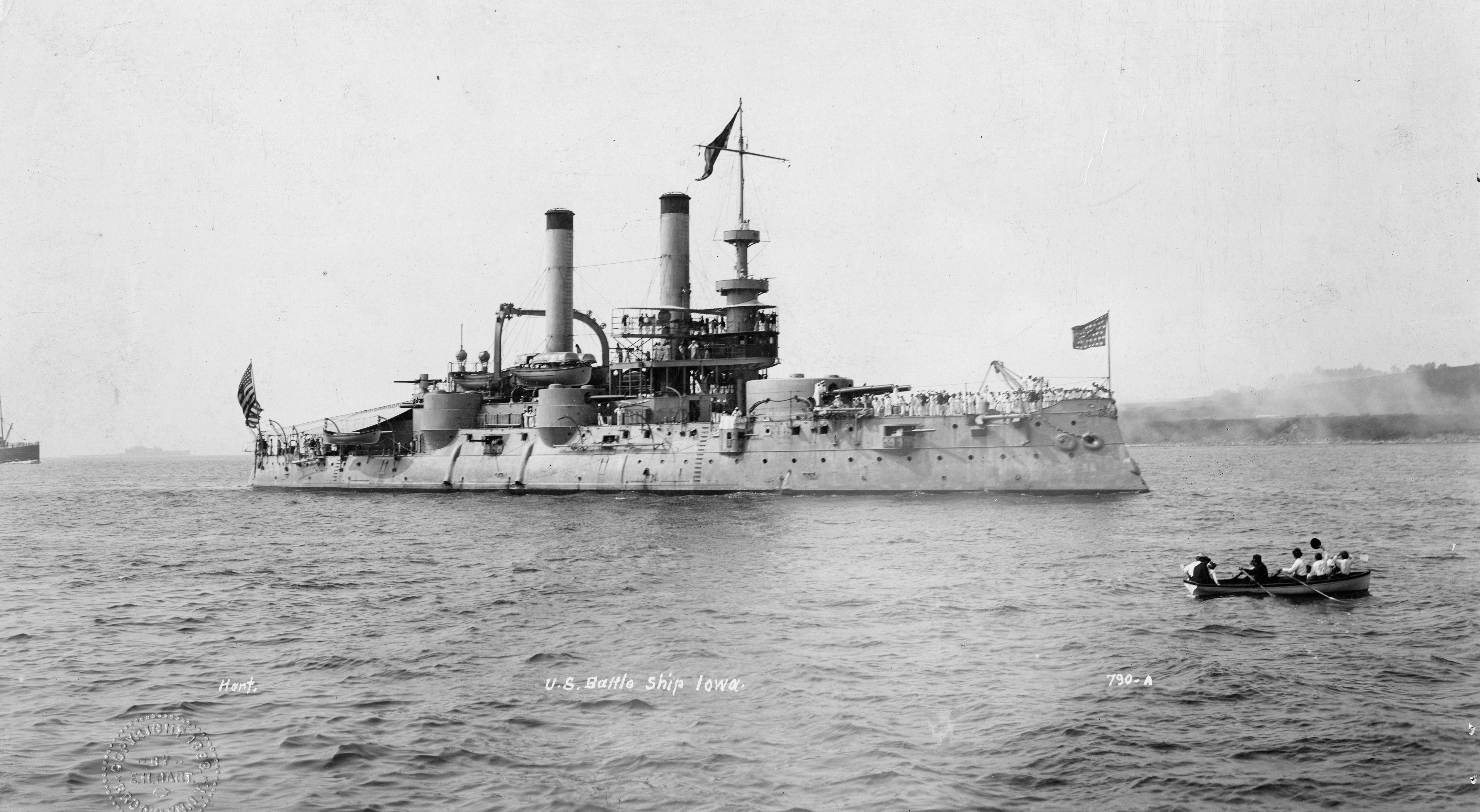 (Battleship # 4) In New York Harbor during the Spanish-American War Victory Fleet Review, August 1898. Photographed by E.H. Hart, Brooklyn, New York. U.S. Naval History and Heritage Command Photograph.